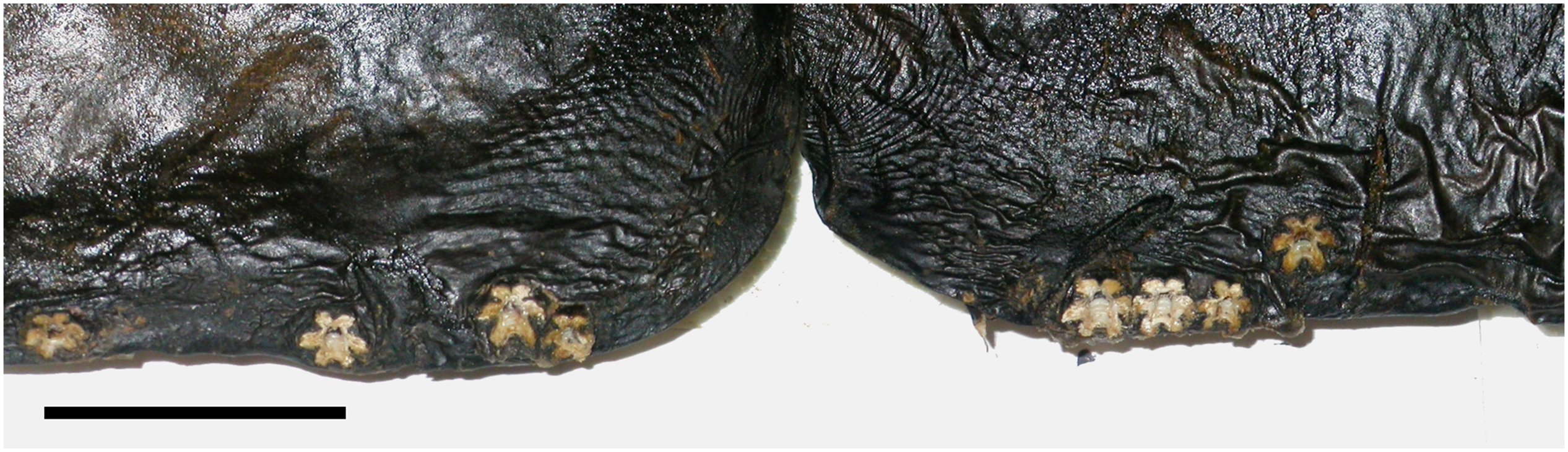 Xenobalanus on the tail fin of a striped dolphin (Stenella coeruleoalba)